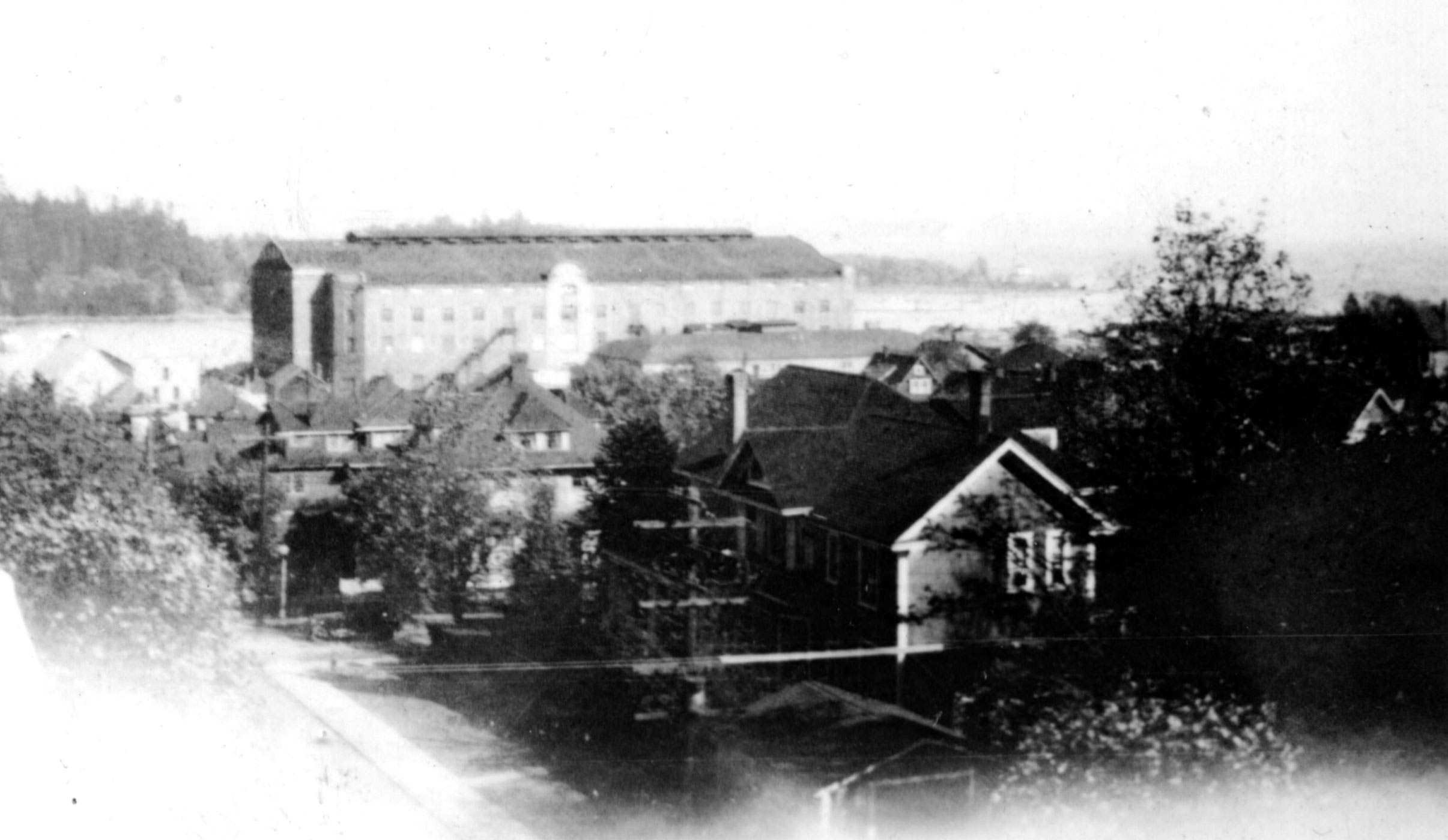 The Denman Arena and the West End neigbourhood of Vancouver, Canada, with part of Stanley Park in the background. This image is believed to have been taken from Chilco or Gilford Street, facing northeast. The arena was located at the corner of Denman Street and Georgia Street.